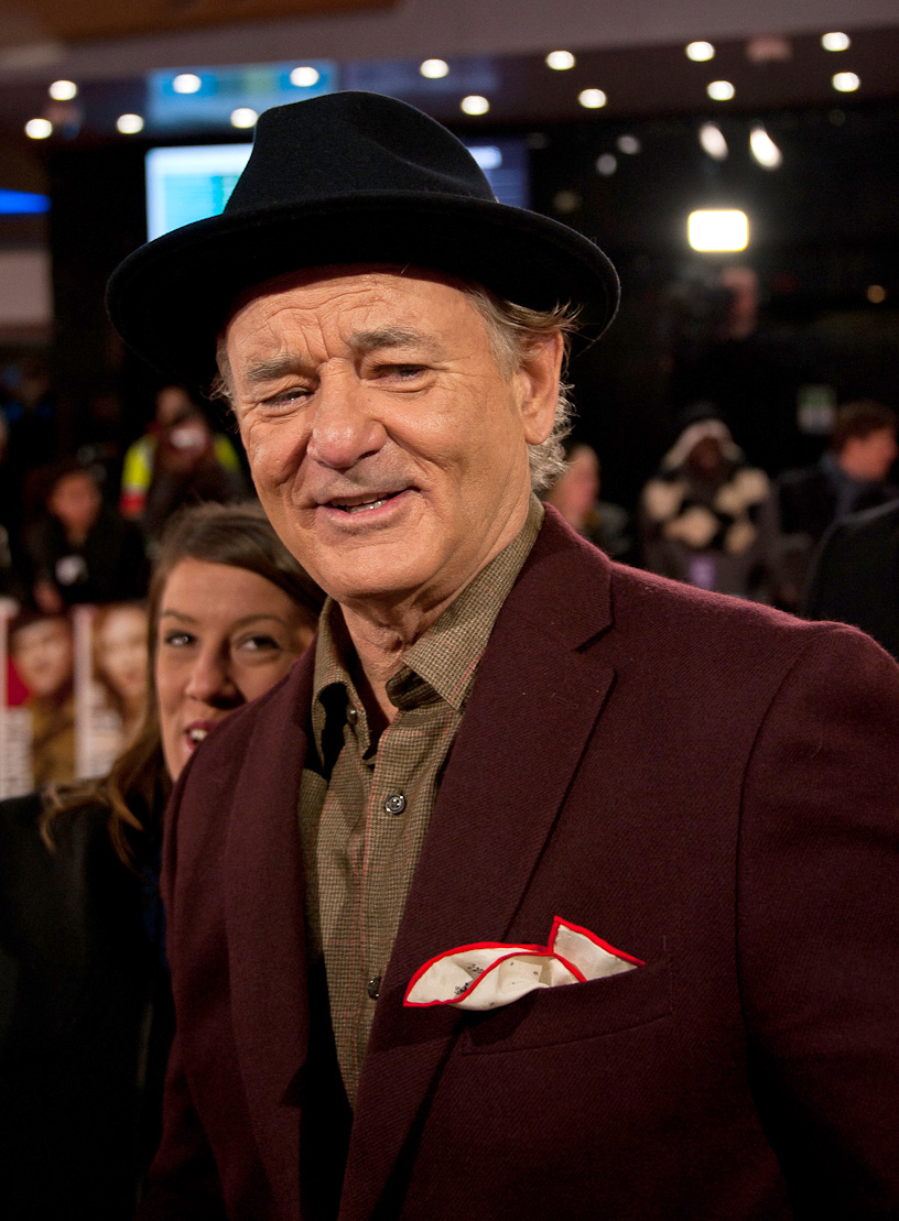 Bill Murray at the Berlin International Film Festival premiere of The Monuments Men, February 8, 2014